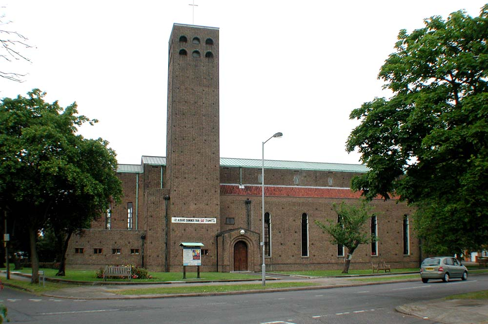 St Alban, The Ridgeway, North Harrow